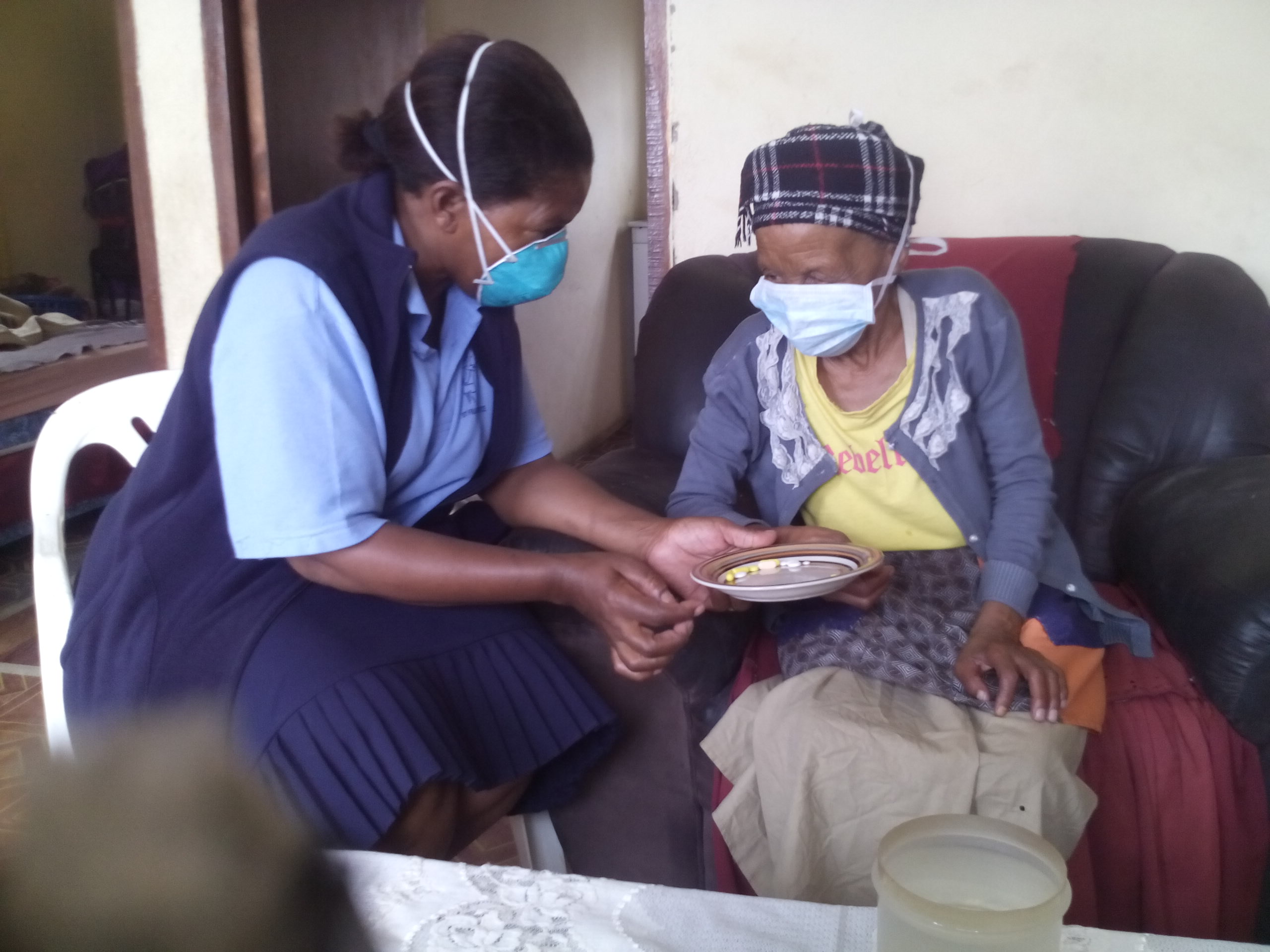 This is a community care worker providing treatment to a TB patient at her home This is an image of "African people at work" from South Africa